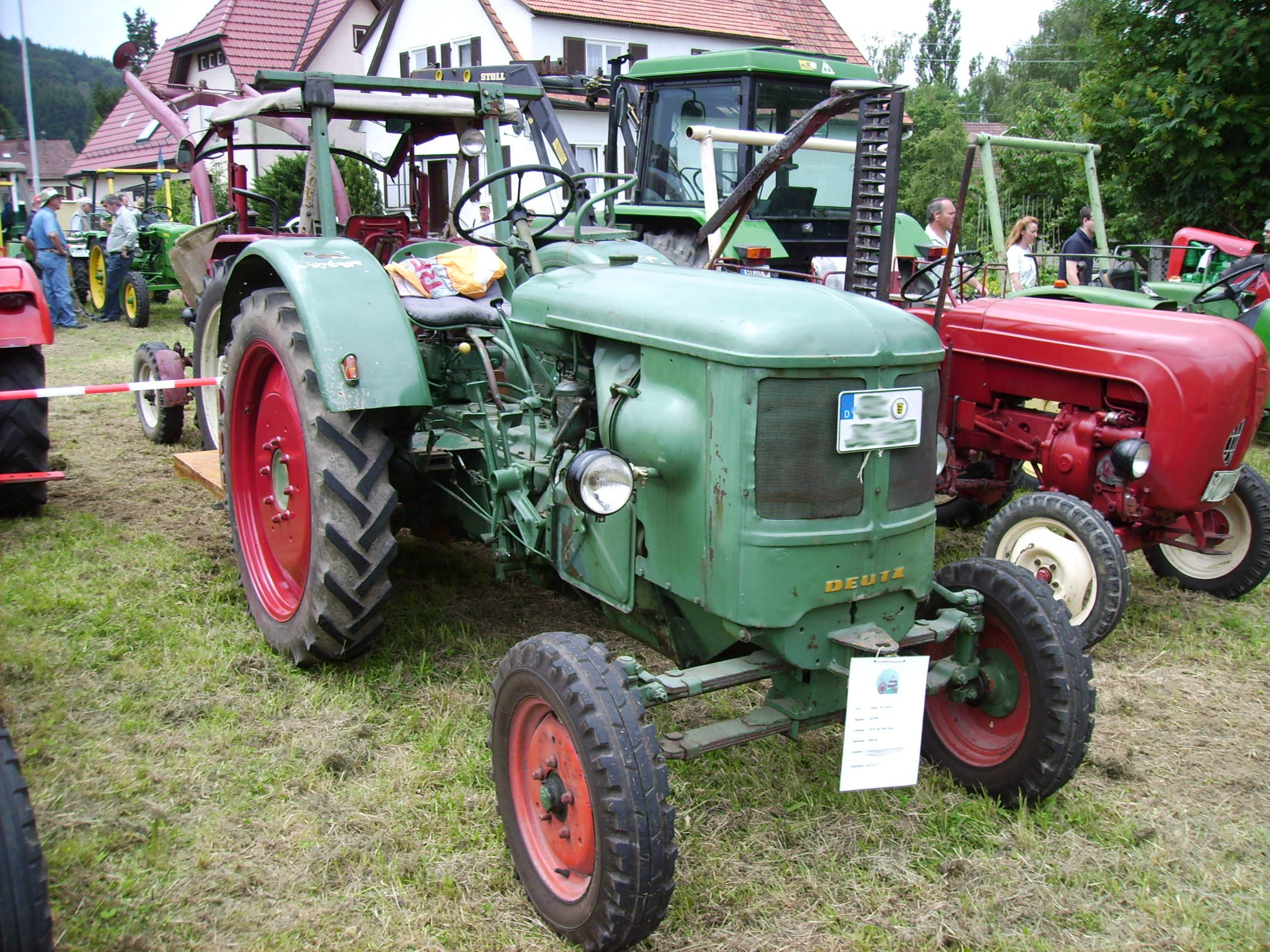 Deutz F2L514/4, 30 HP